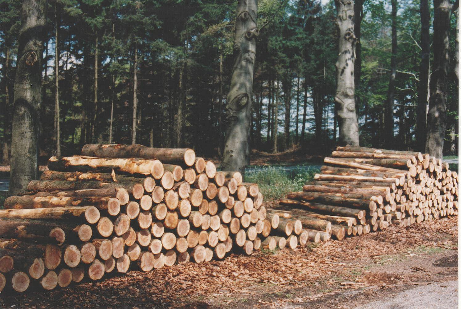 softwood logs for the paperindustrie